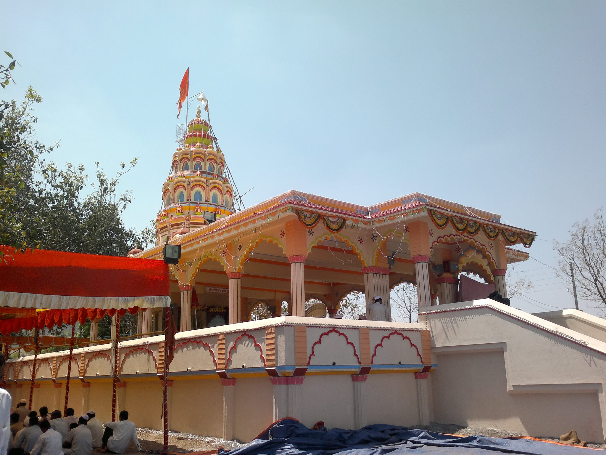 Jyotiba